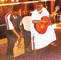 Koo Nimo (guitar) and son Yaw Amponsah (rhumba box) performing at the wedding reception of Lisa Merlin and Richard Grassy, 15 July 2000, 10:53:06